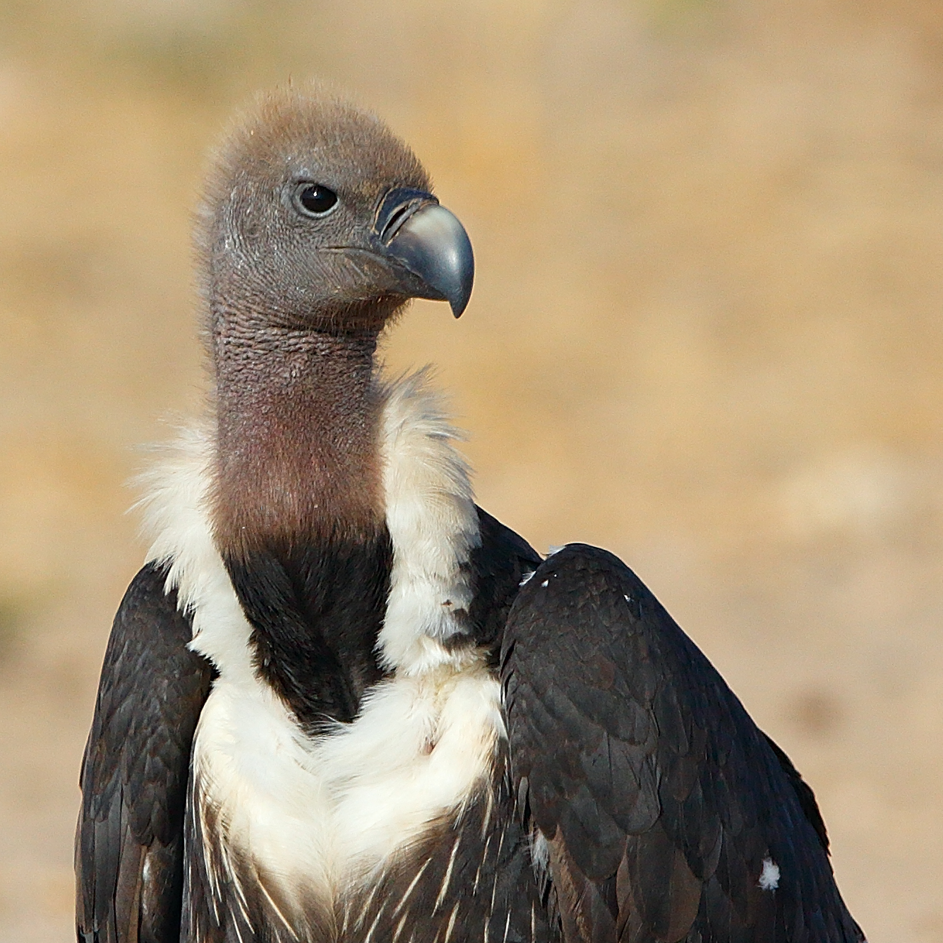 White-rumped vulture, Desert National Park, Sudasari, Rajasthan, India